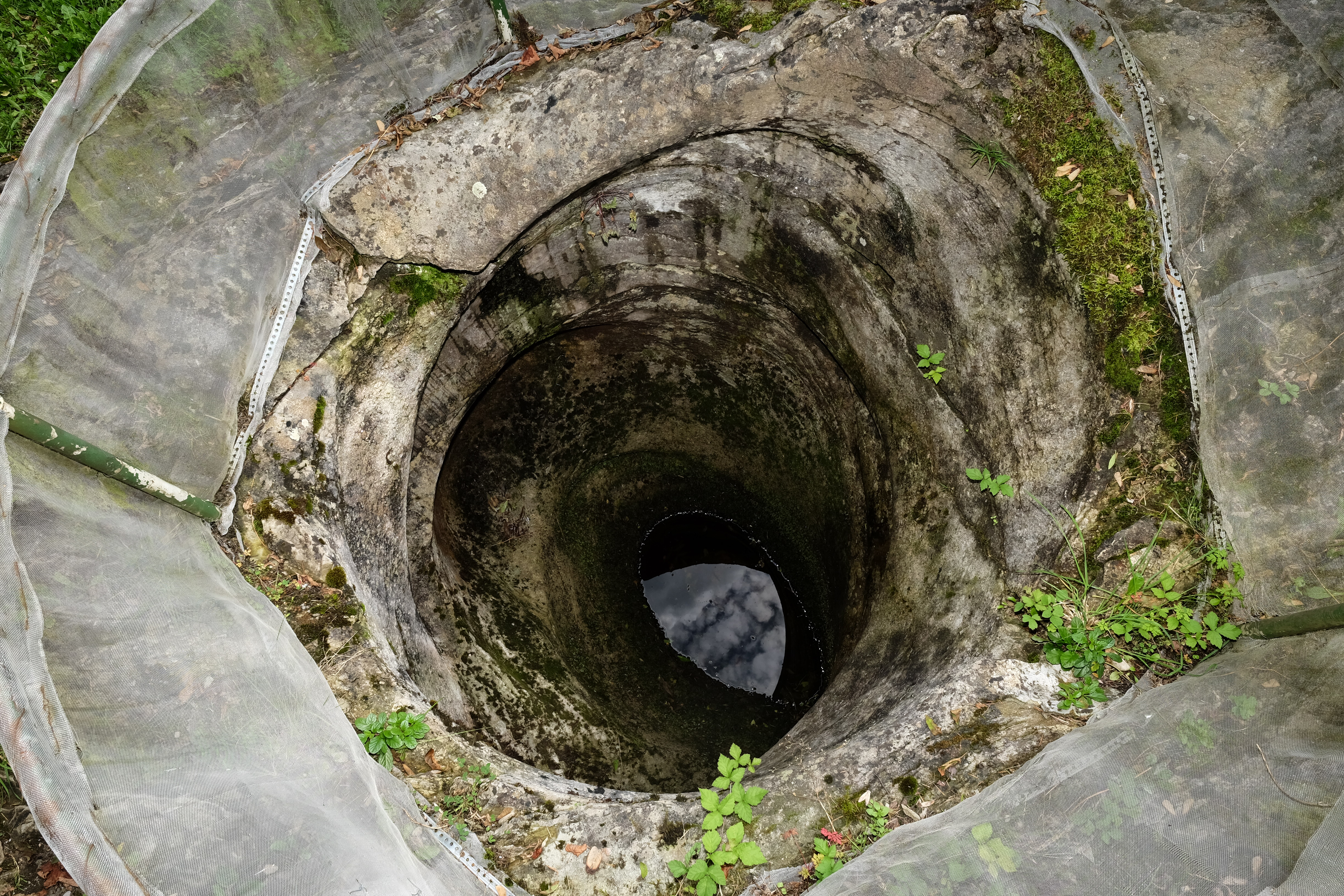 Moulin (glacier mill), geotope ID 776R005, Scheideg-Scheffau, district Lindau, Bavaria, Germany